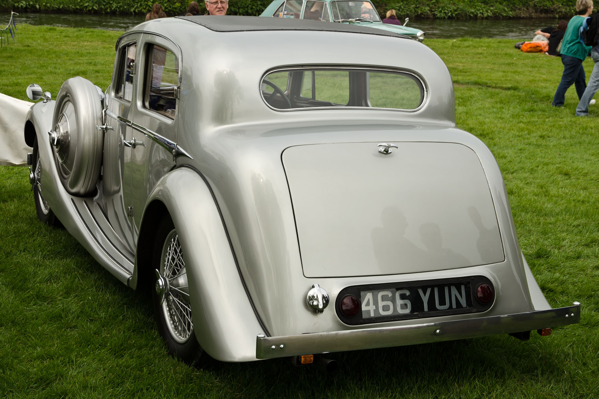 1937 Jaguar 1½ litre by SS (DVLA) manufactured 1936, 1608cc Catton Hall Classic Car Show 4 May 2014